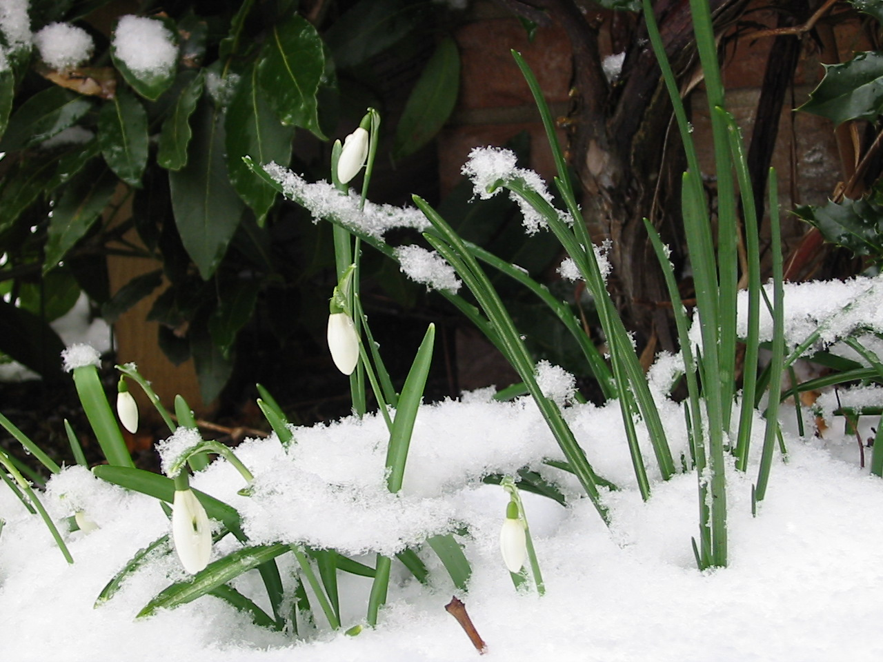 Galanthus nivalis, snowdrops in the snow (sneeuwklokje)